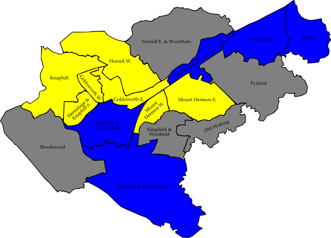 A map of the results of the 2006 Woking Council election. Colour legend by wards won: Liberal Democrats Conservative party Wards in grey were not contested in 2006.